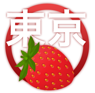 A graphic emblem, reminiscent of the Tokyo Mew Mew manga (the Japanese kana say "Tokyo".)